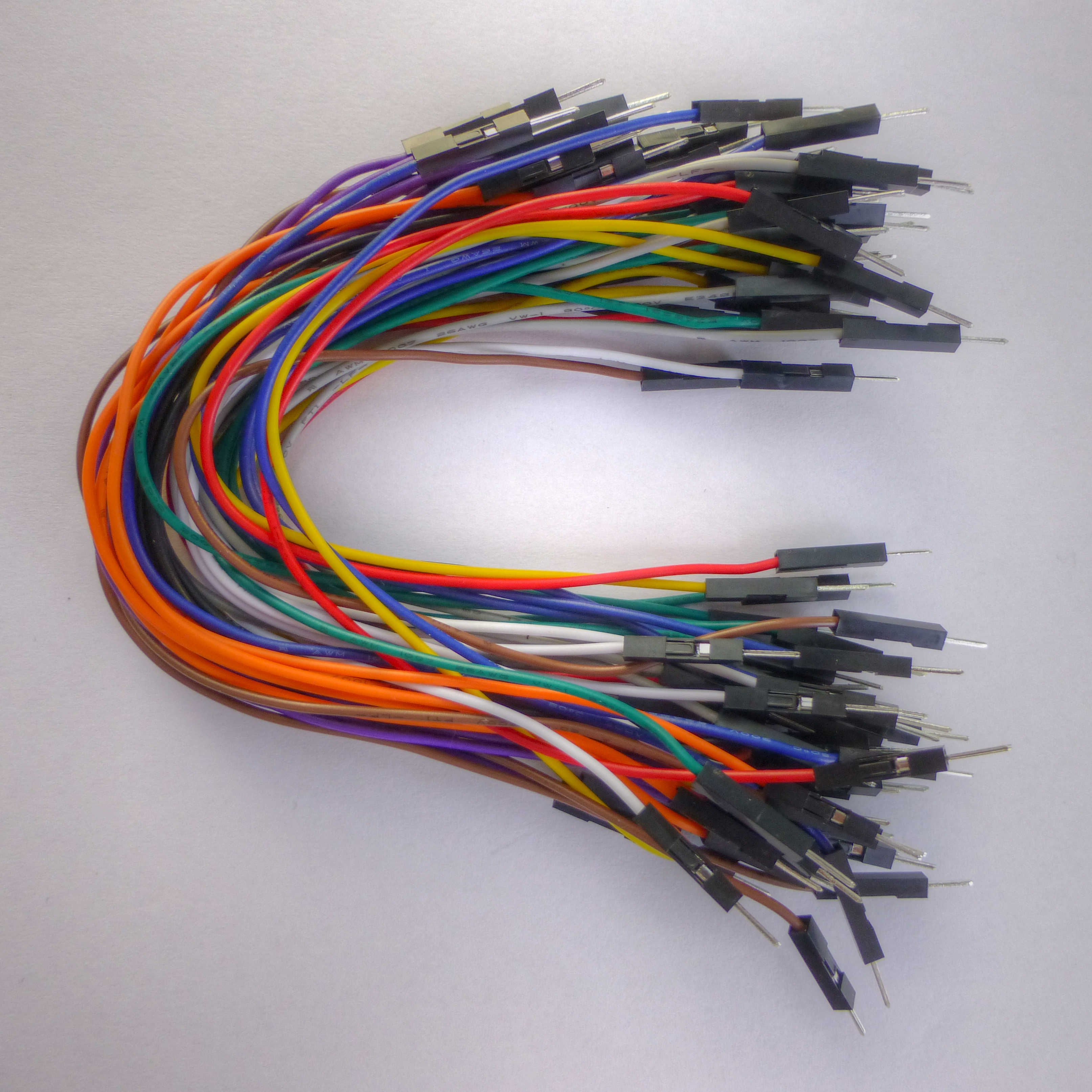 Electric cables